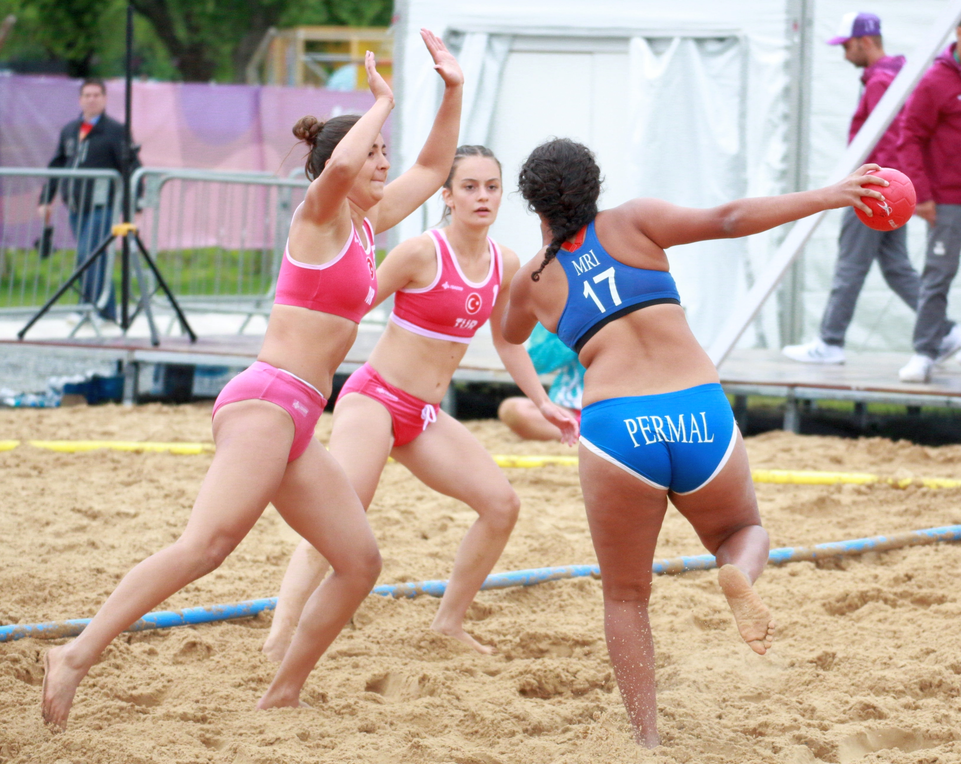 Beach handball at the 2018 Summer Youth Olympics at 12 October 2018 – Girls Consolation Round – Mauritius-Turkey 0:2